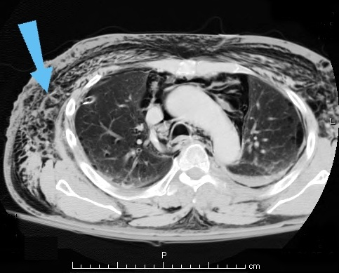 Modified version of Image:Subcutaneous emphysema chest.jpg, a CT scan of a patient with severe subcutaneous emphysema. Chest CT. Blue arrow points to Subcutaneous emphysema.